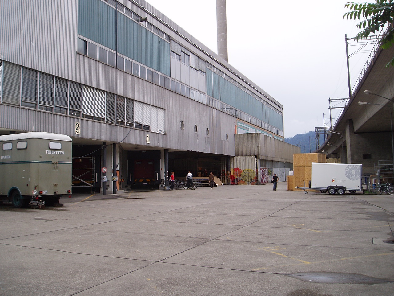 Toni-Areal, Degree Show 2007 Zurich School of Art and Design (HGKZ)